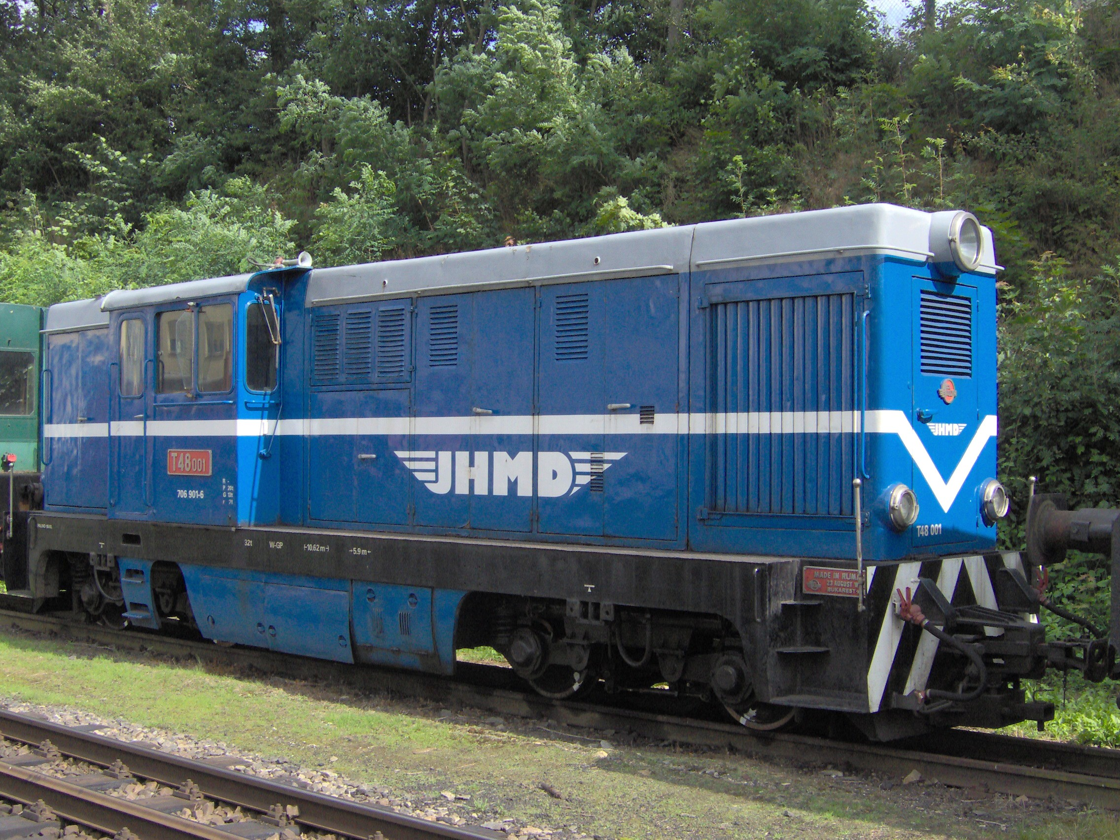 T 48.001 (706.901) diesel locomotive, Jindřichův Hradec, Jindřichův Hradec District, Czech Republic